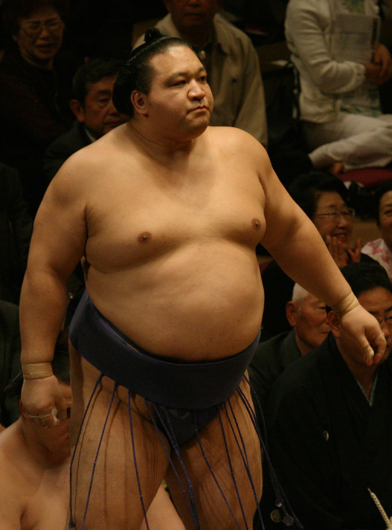 Former ōzeki Kaiō Hiroyuki (Tomozuna stable) during the May 2008 Grand Sumo Tournament.